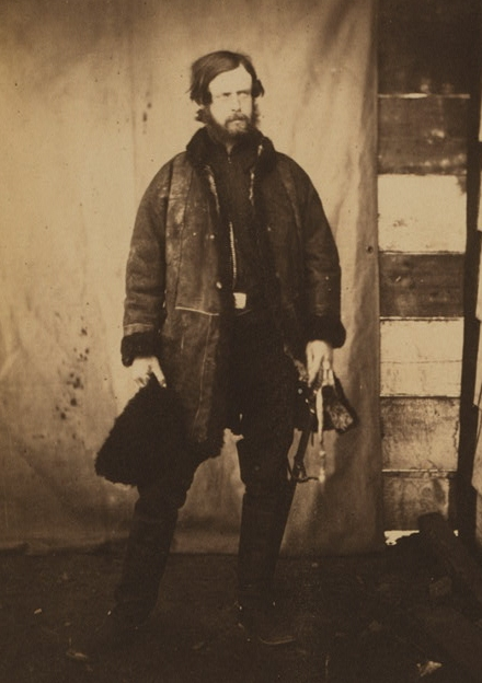 Captain Alexander Leslie-Melville, of the Grenadier Guards; full-length portrait, wearing heavy coat, standing, facing slightly right, holding fur hat in right hand.